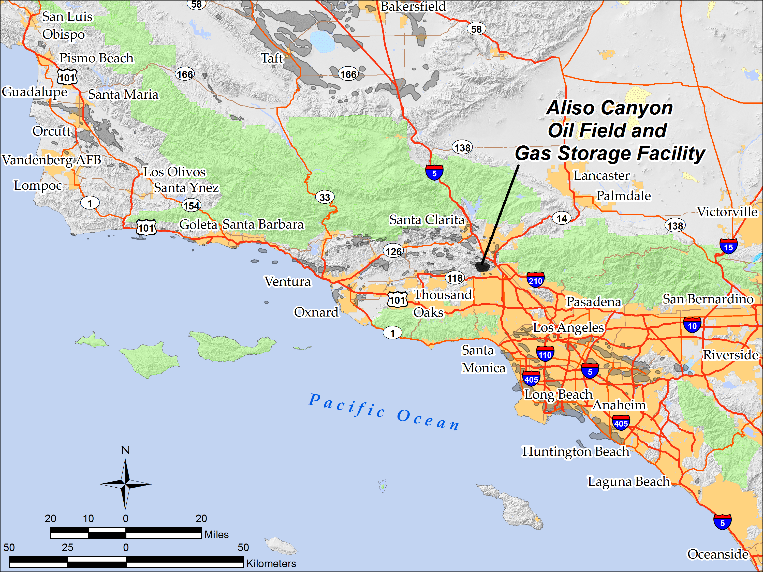 Location of Aliso Canyon Oil Field in Southern California, with scale, etc. From public domain data, by self in ArcGIS 10.2, cc-by-sa and GFDL.